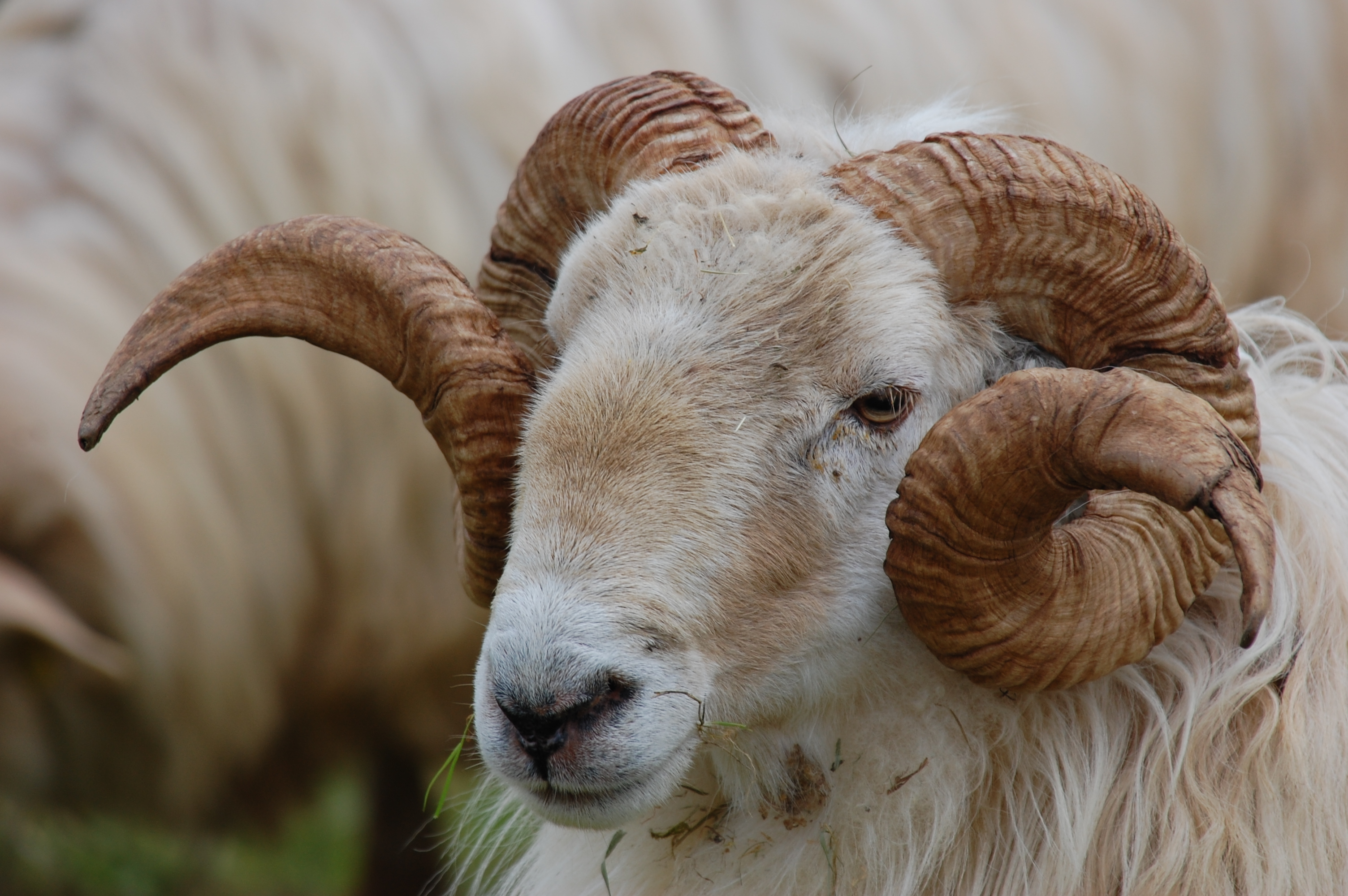 Latxa ram.